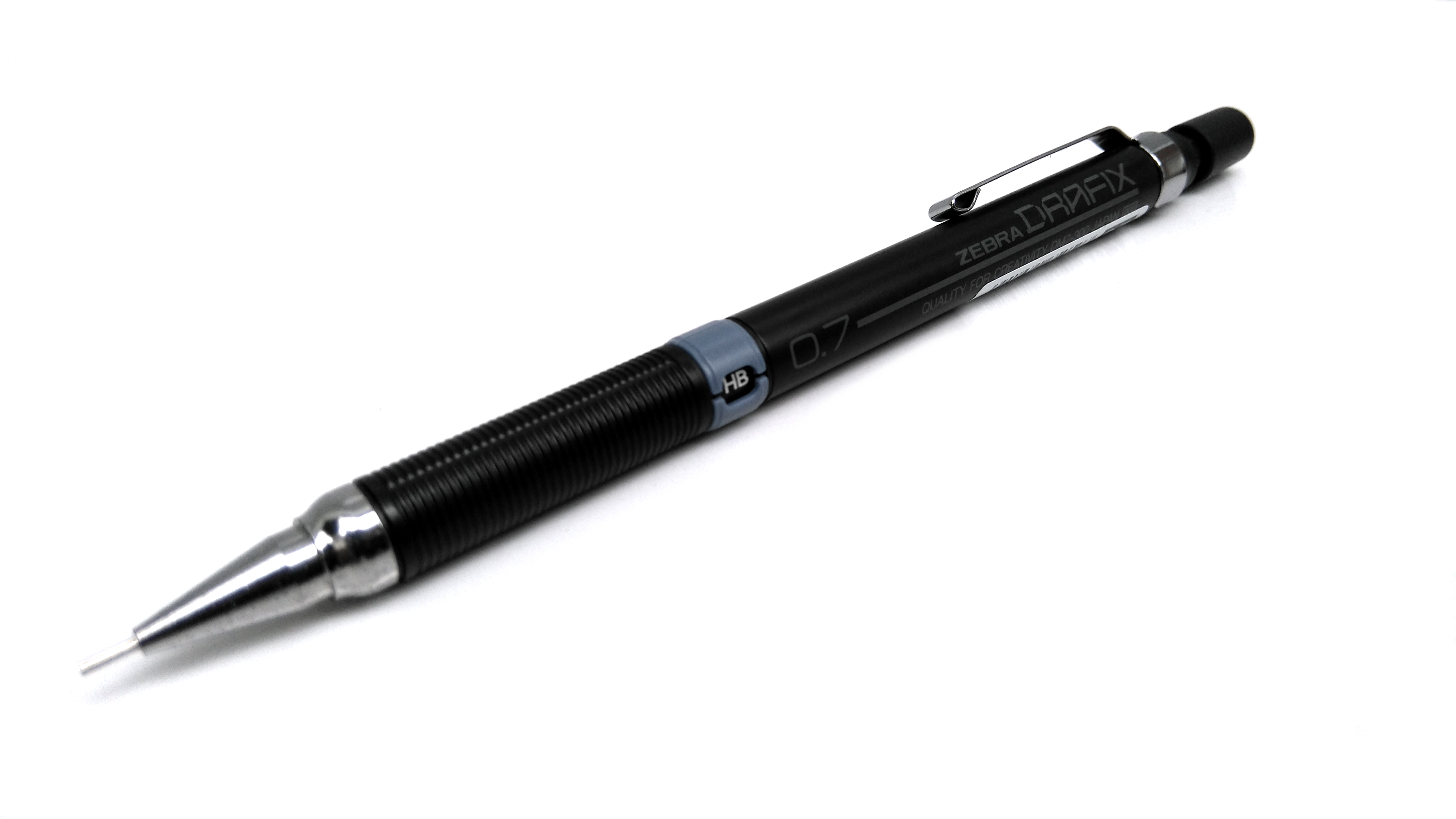 Mechanical pencil made by Zebra Japan. DRAFIX 0.7 model.